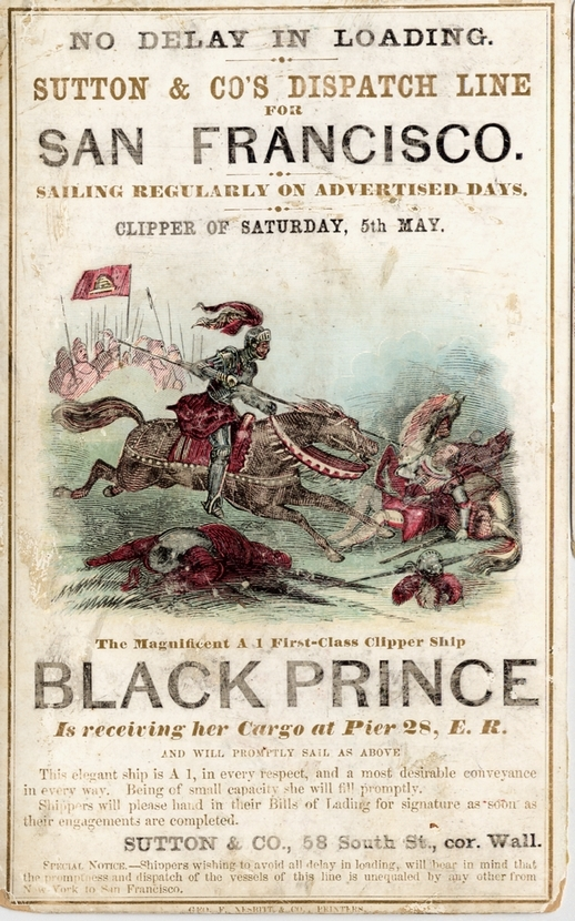 Sailing card for the clipper ship Black Prince.